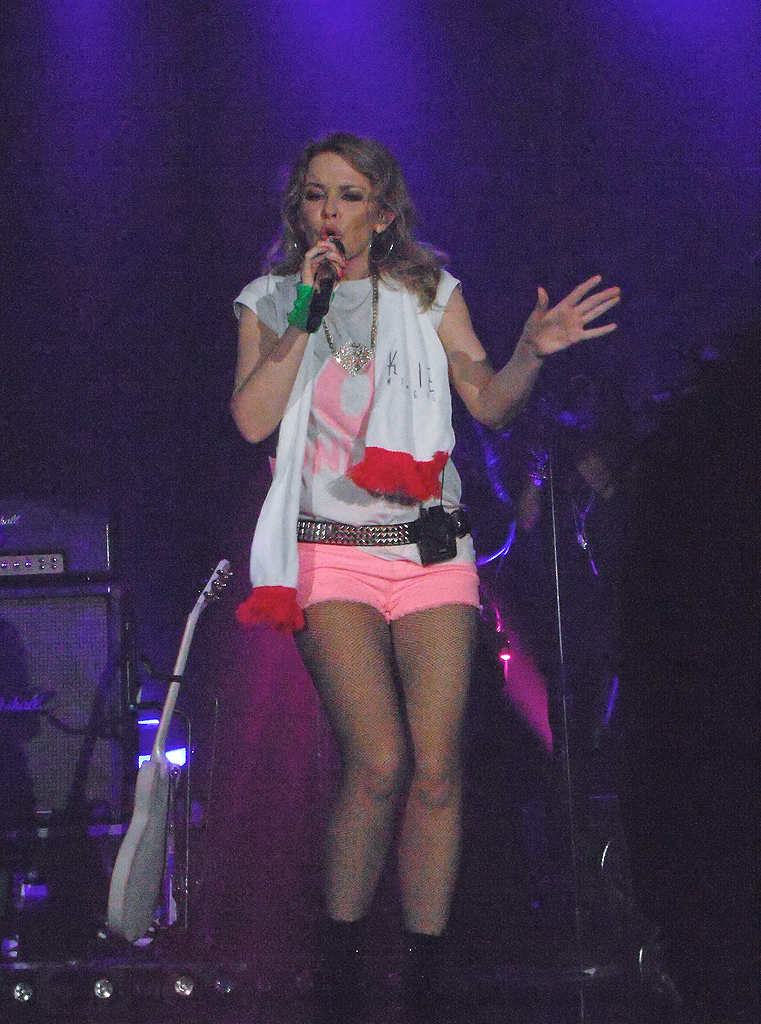 Kylie - Anti Tour - Manchester Academy - 02.04.12. - (17)